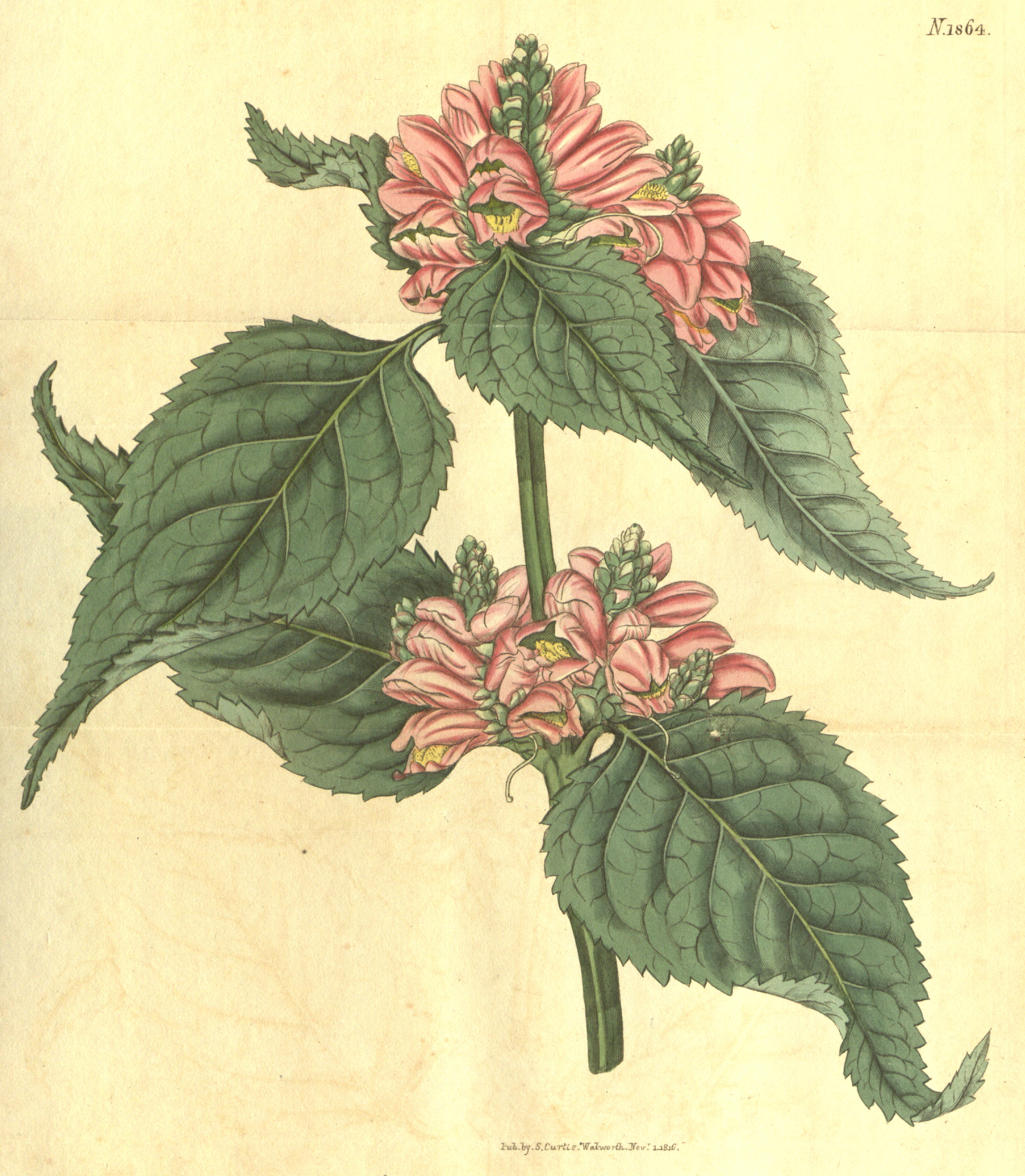 Chelone lyonii